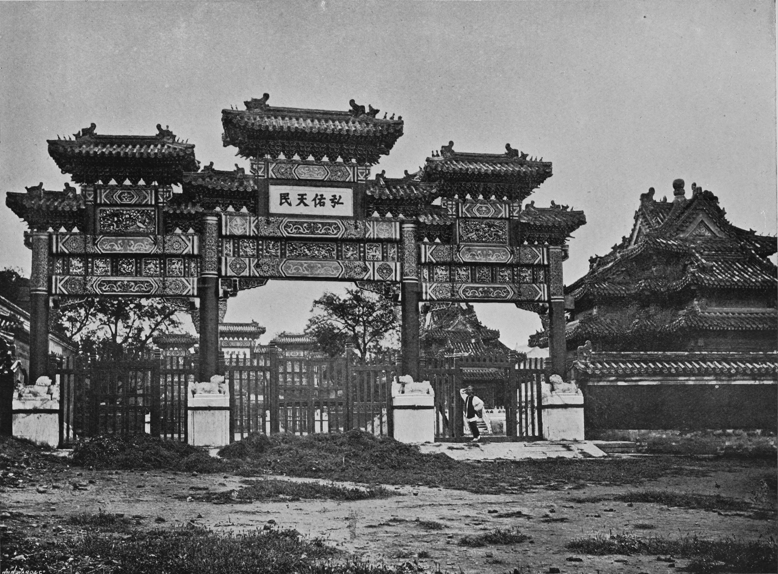 photo from Through China with a camera